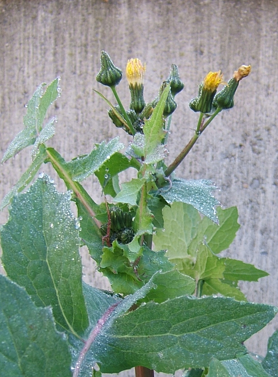 common sow thistle